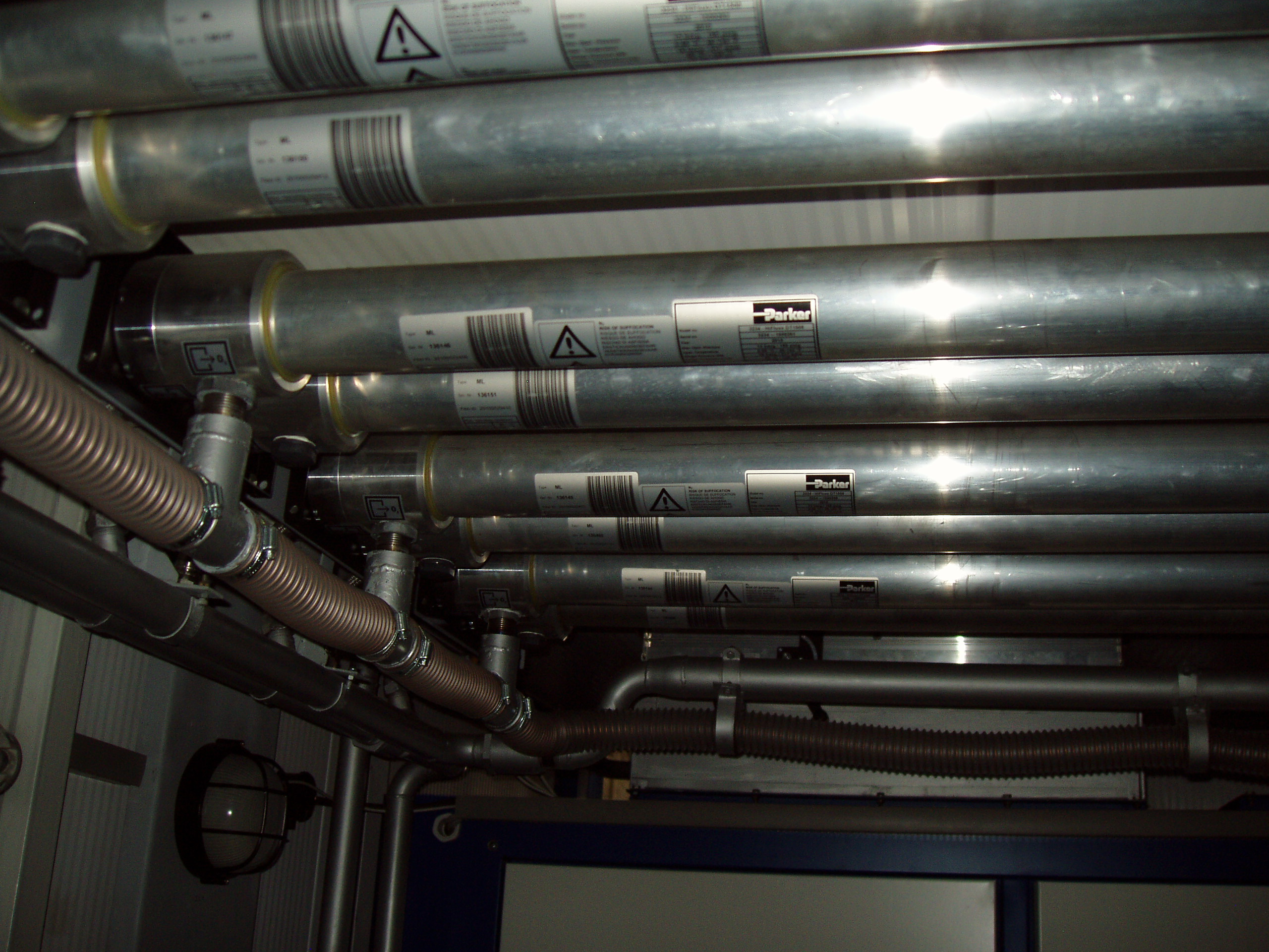 URM Membranes nitrogen